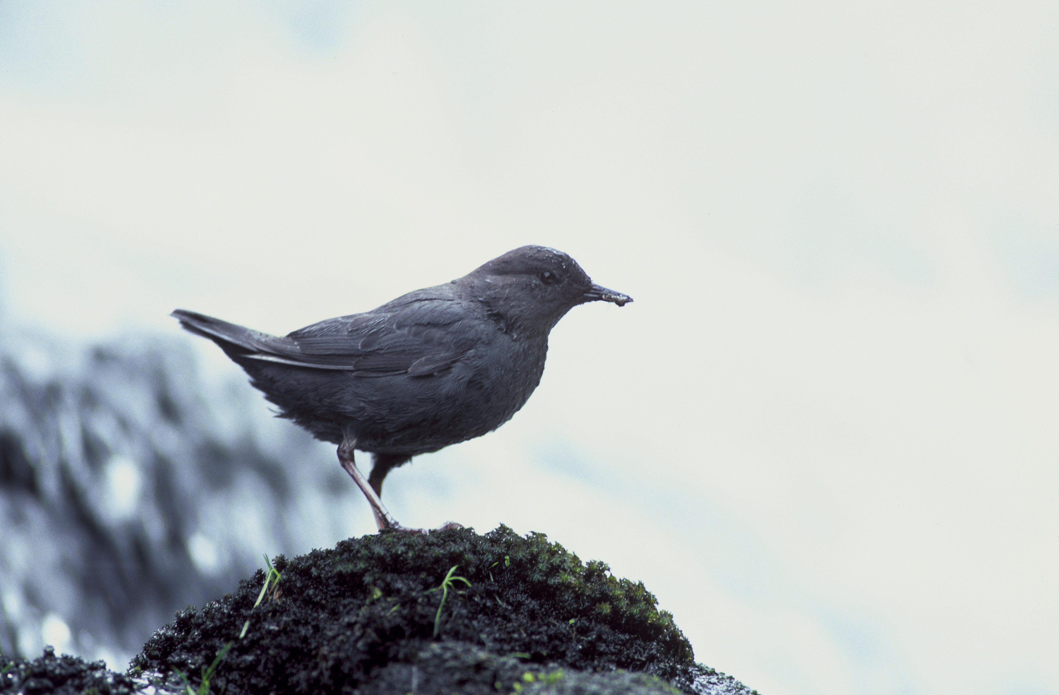 American dipper photographed on Kodiak Island